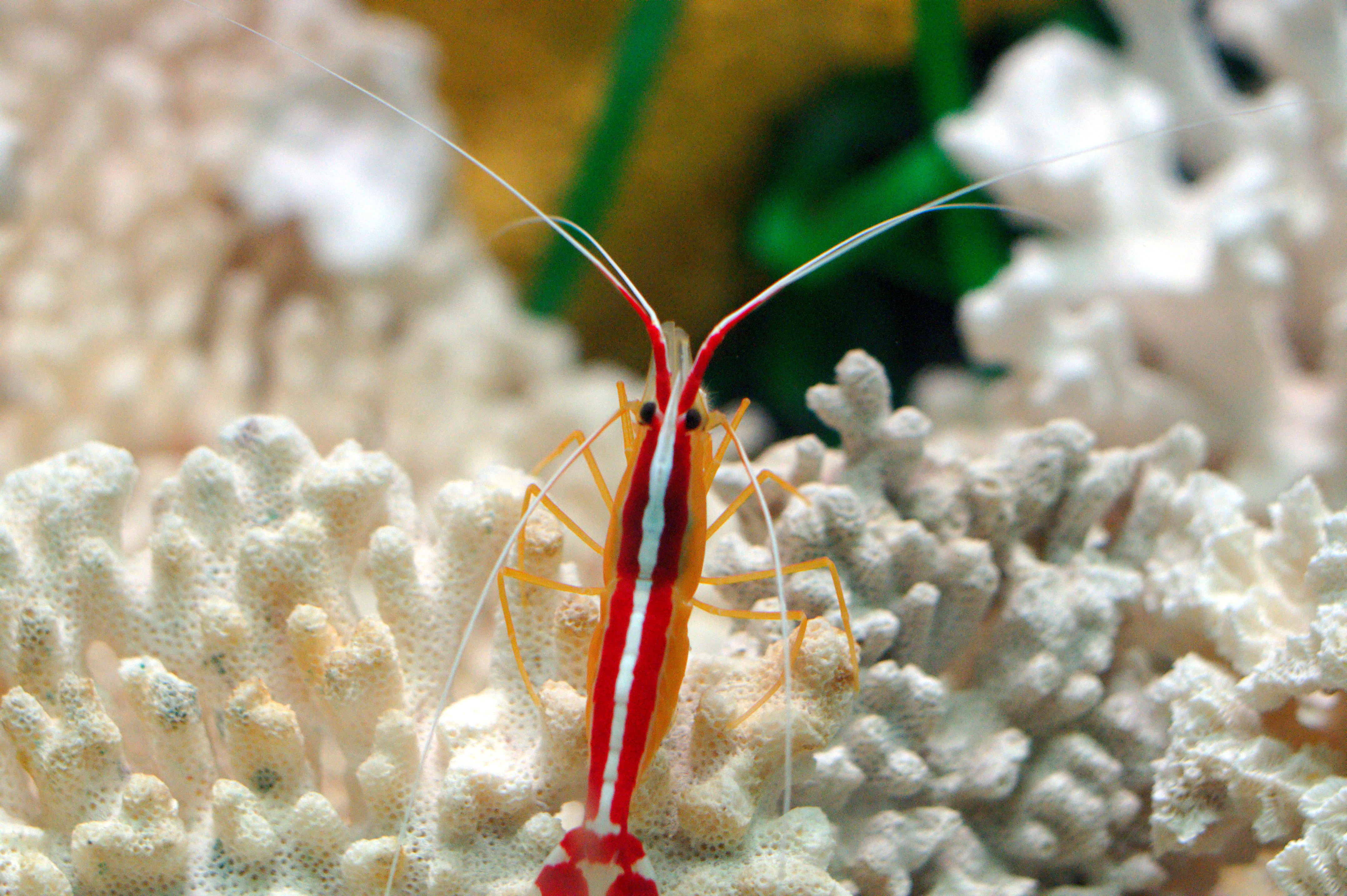 Pacific cleaner shrimp (Lysmata amboinensis). Photo taken in the Aquarium of Barcelona.